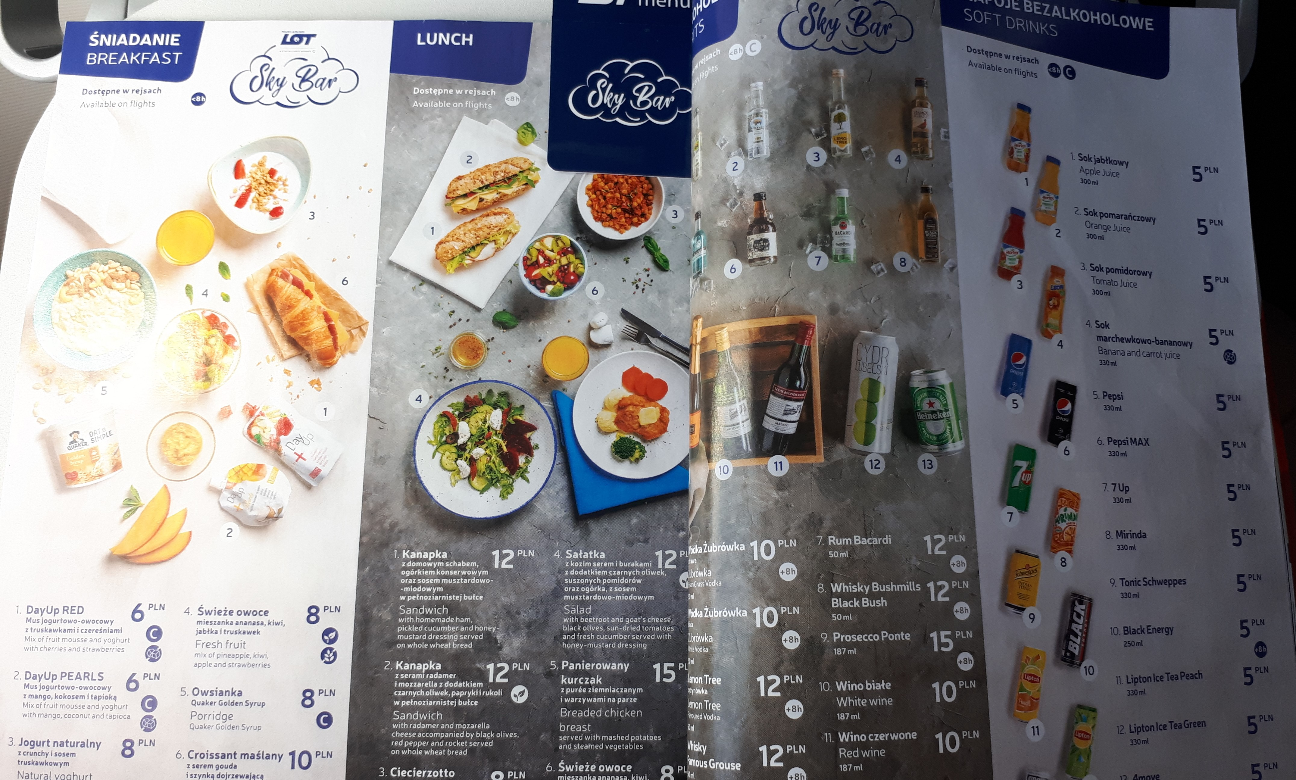 LOT Polish Airlines menu, October 2018